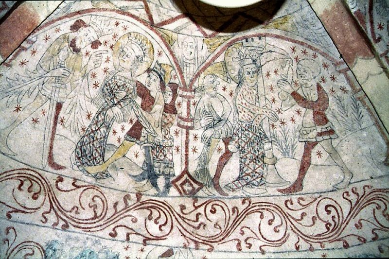 Bregninge Kirke (church) in Kalundborg Kommune